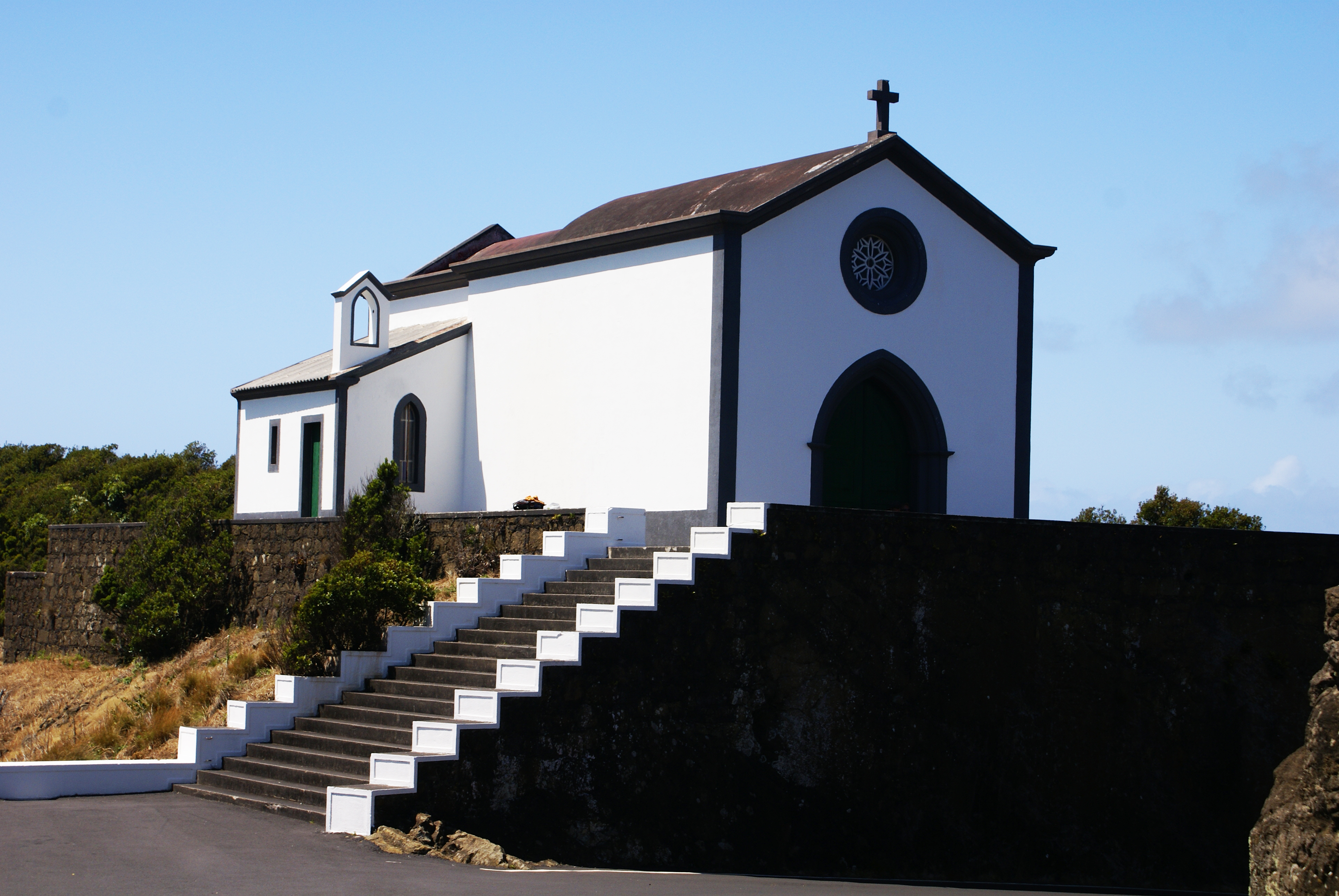 The Chapel of Nossa Senhora da Guia, Monte da Guia, Angustias, Horta, Faial (Azores), Portugal